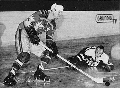 Sven Tumba (left) on the ice 1960.